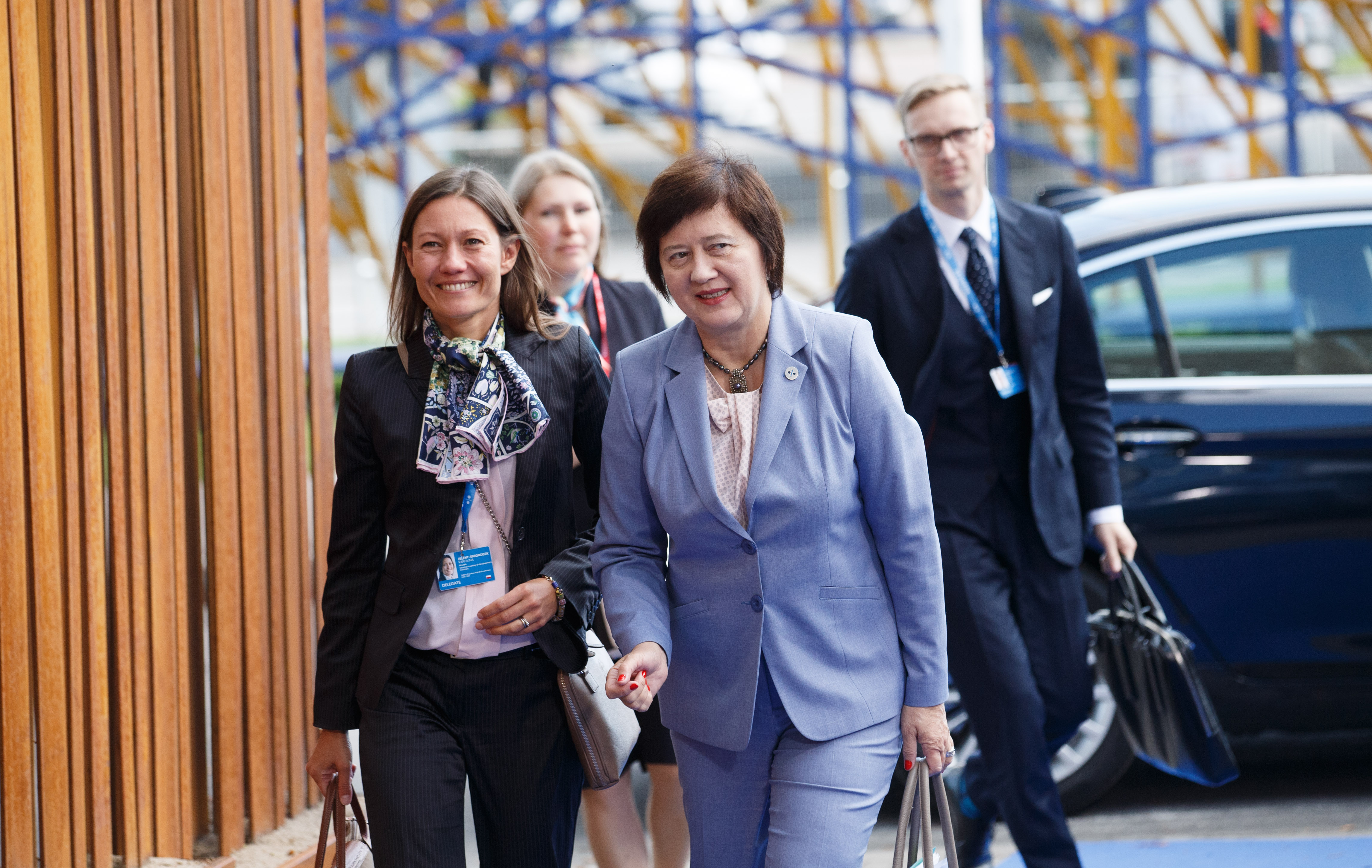 Joanna Wronecka, Undersecretary of State, Ministry of Foreign Affairs, Poland Photo: Raul Mee (EU2017EE)